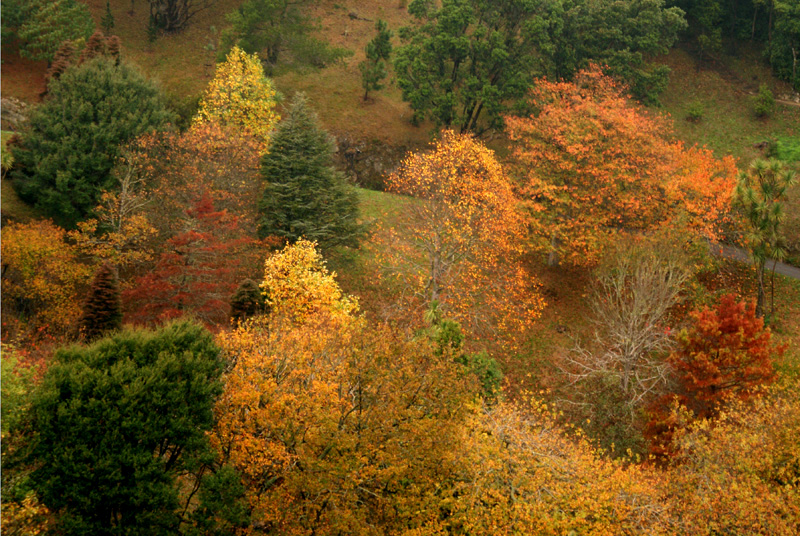 SONY DSC Autumn in Northland, Wellington